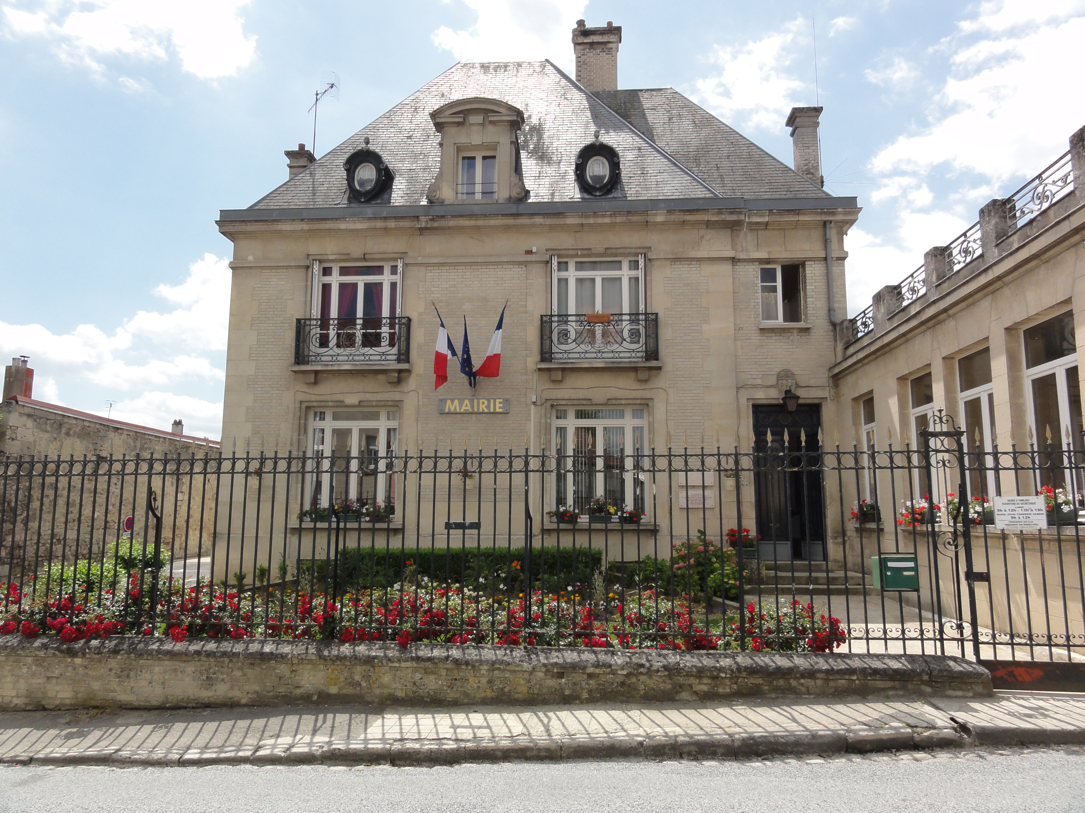 Ambleny (Aisne) mairie